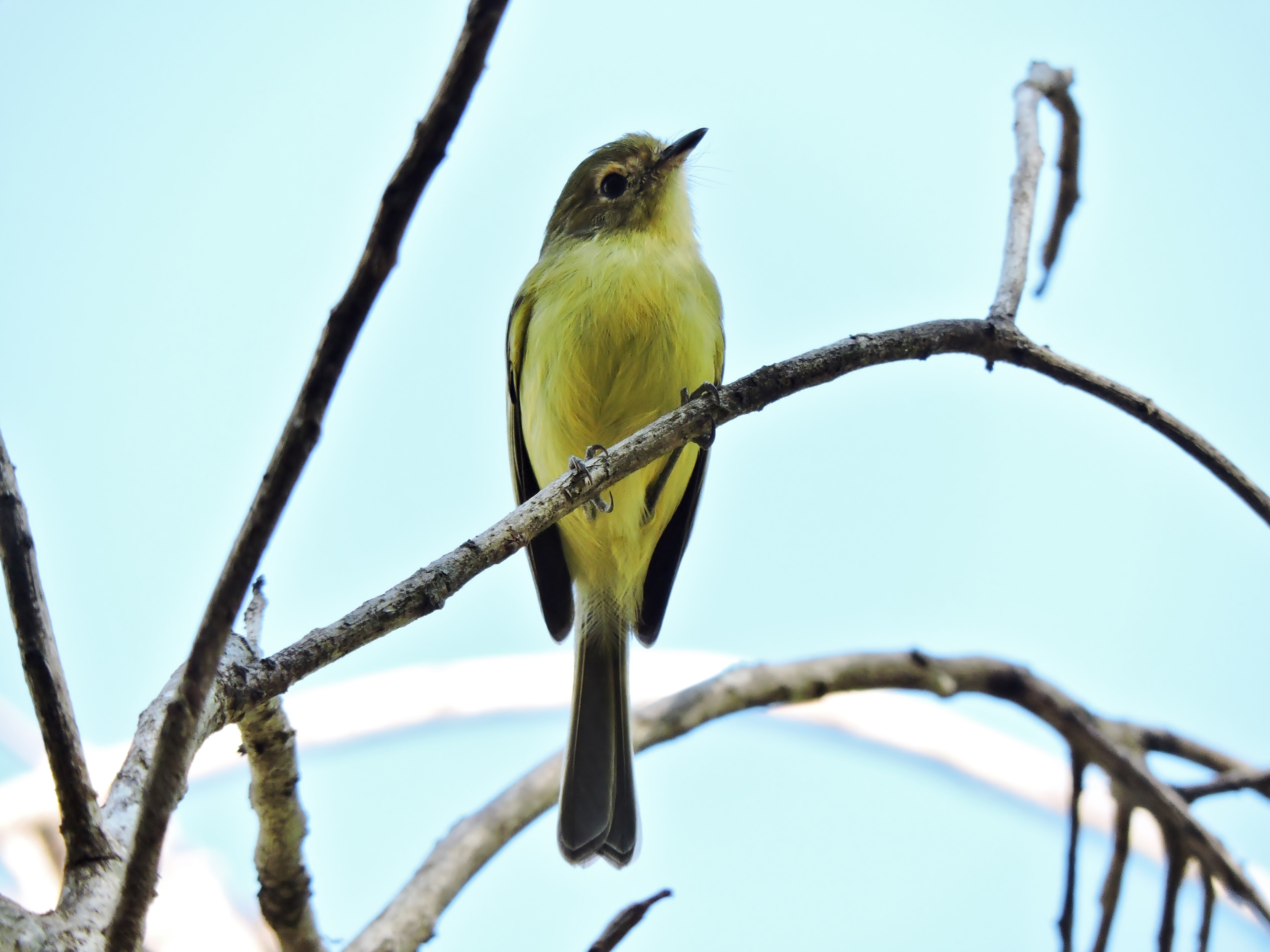 P. roquettei in Curvelo, Minas Gerais, Brazil